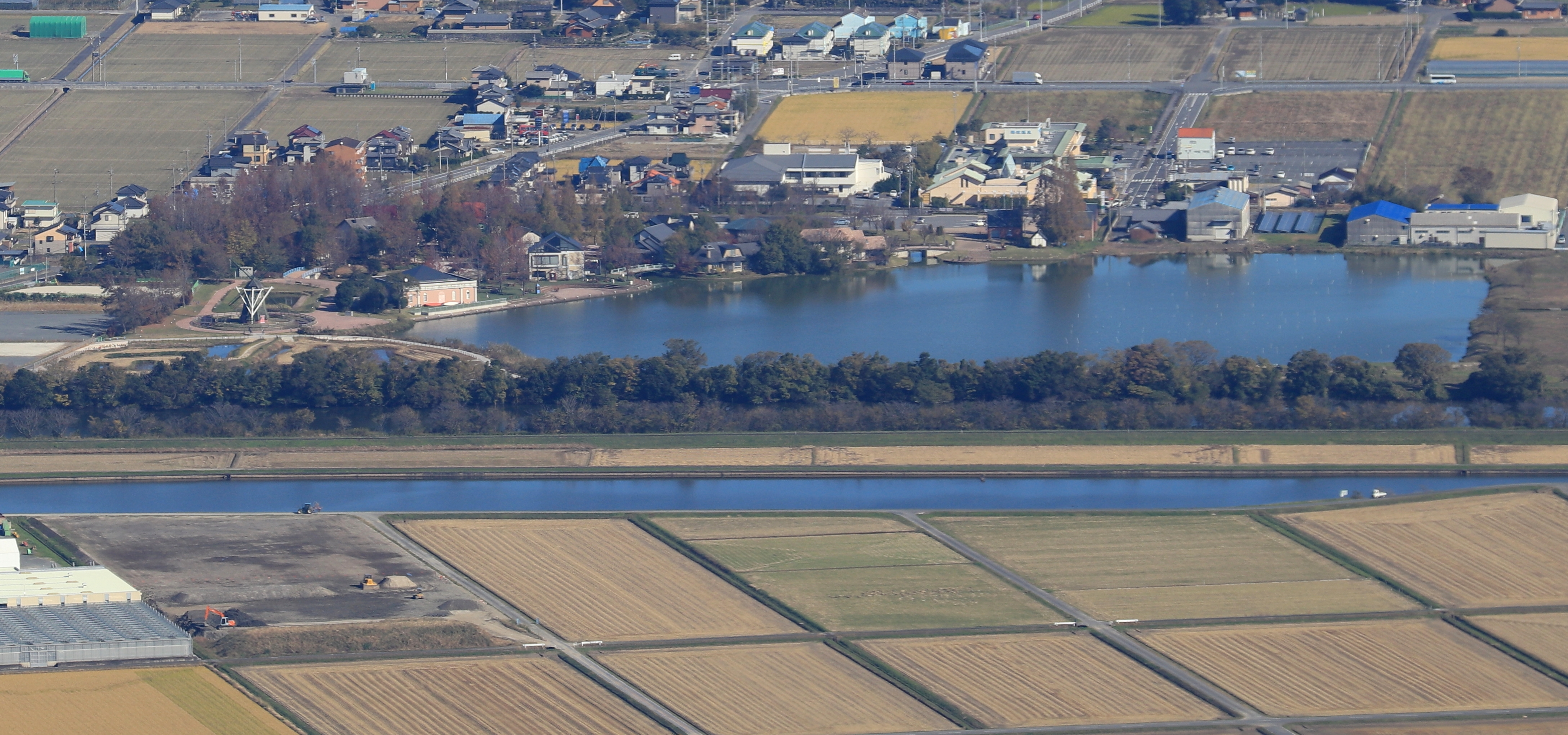 Arua World Suigo Park Center seen from Mount Ishizuontake (Yoro Mountains) in Kaizucho, Kaizu City, Gifu Prefecture, Japan.